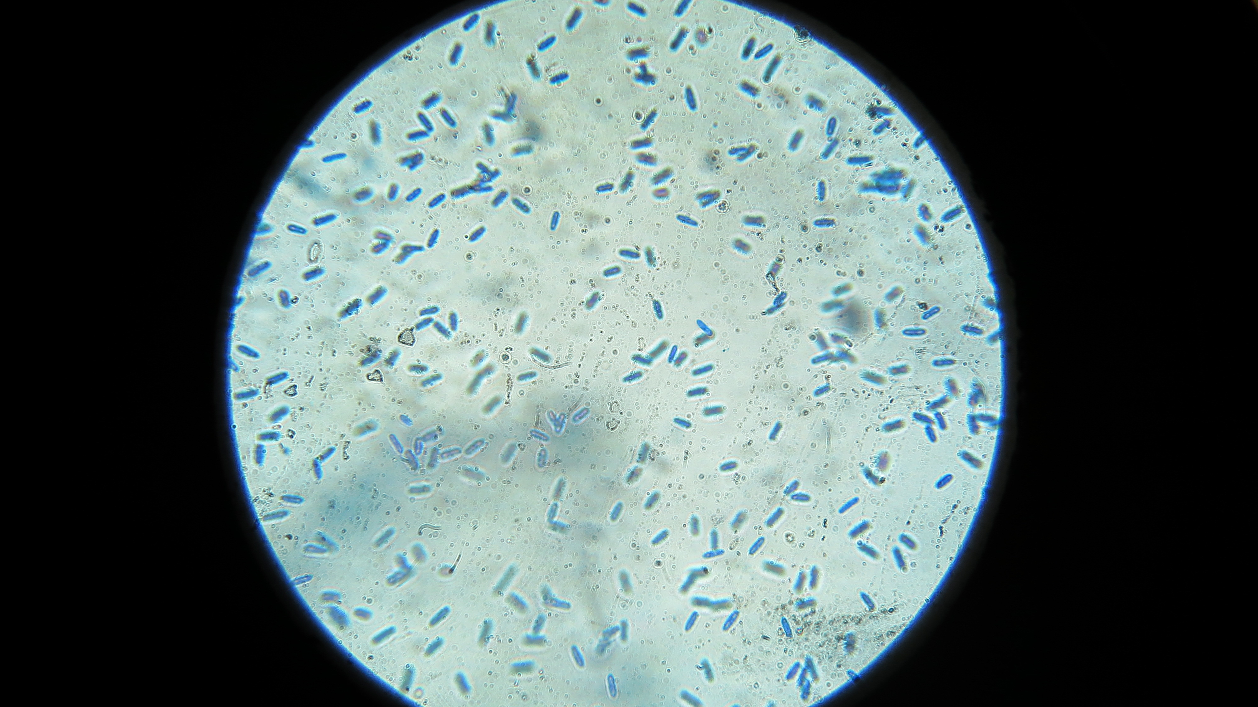 Colletotrichum gloeosporioides